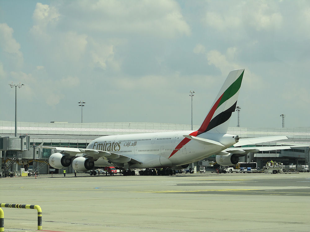 Airbus A380-861, A6-EDT, The Emirates Prague Vaclav Havel Airport (PRG). 04.06.2018 r.